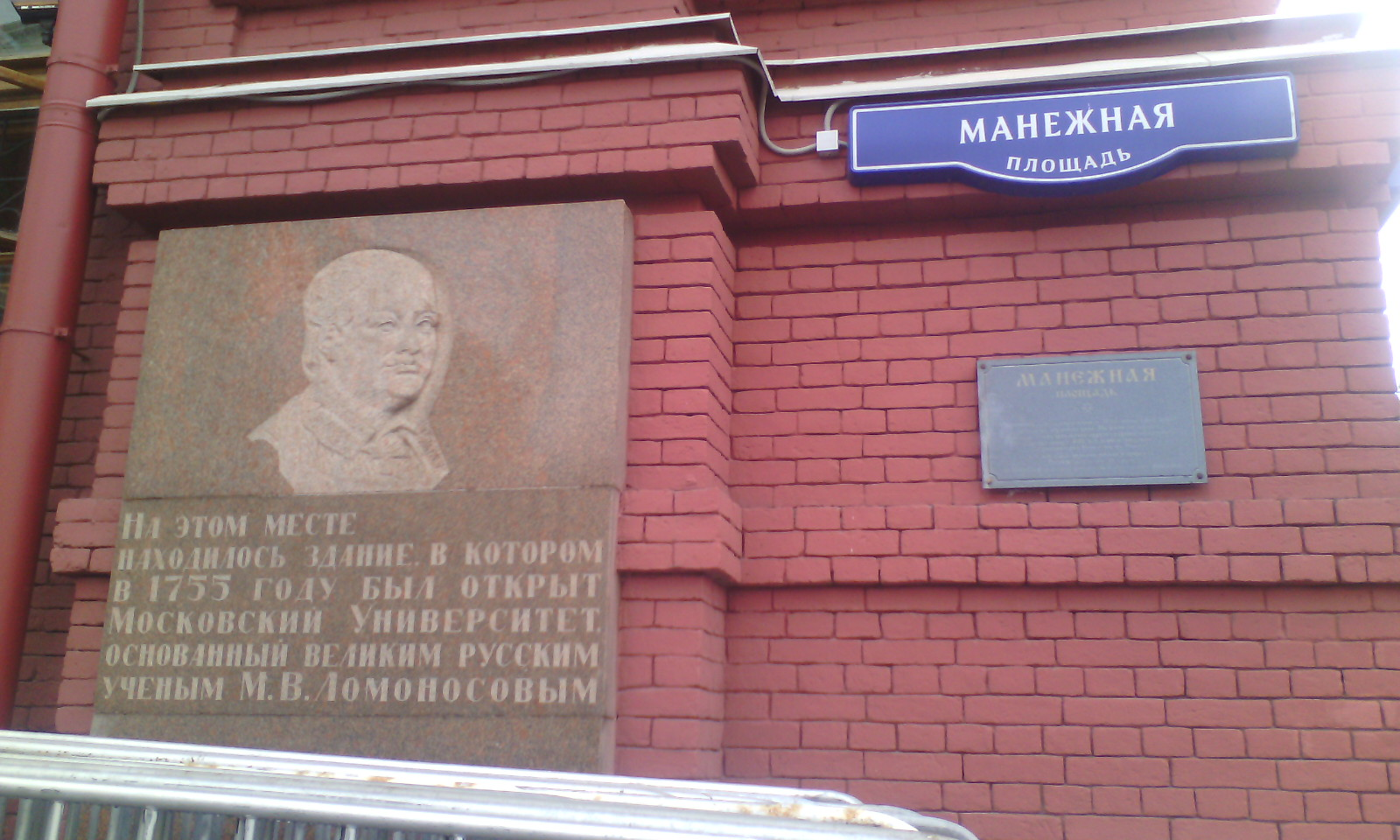 The place where Moscow State University was founded in 1755, Manezhnaya Square, Moscow